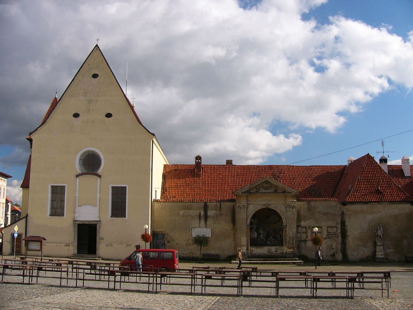 Church of Saint John the Baptist in Znojmo